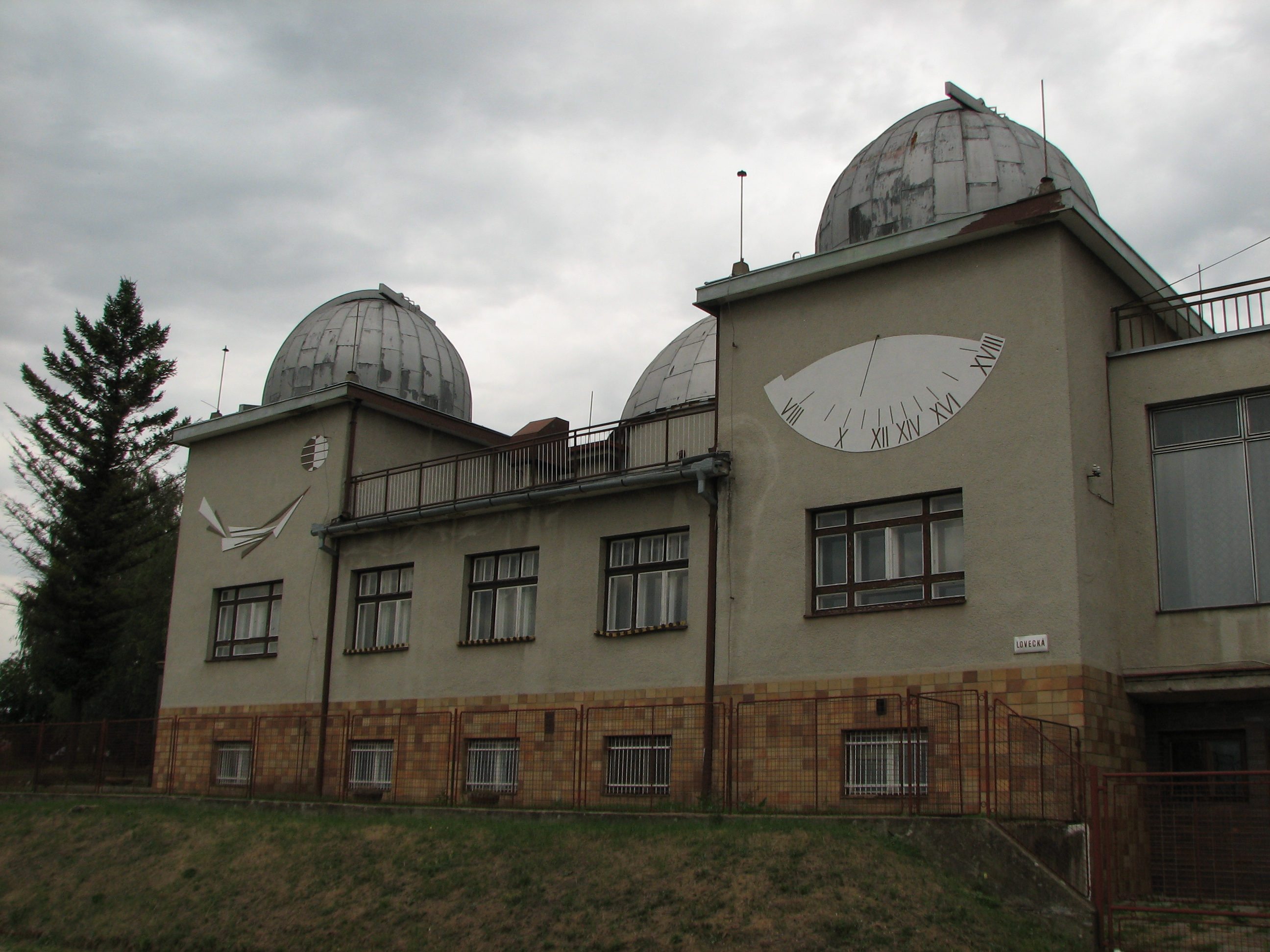 Ždánice - observatory